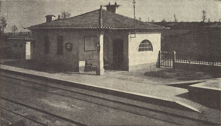 Vilar de Rei Railway Station, in the Sabor Railway, in Portugal, later depromoted to Halt. This photograph was published on the Gazeta dos Caminhos de Ferro magazine No. 1131, of the 1st February 1935, and scanned by the Hemeroteca Municipal de Lisboa.